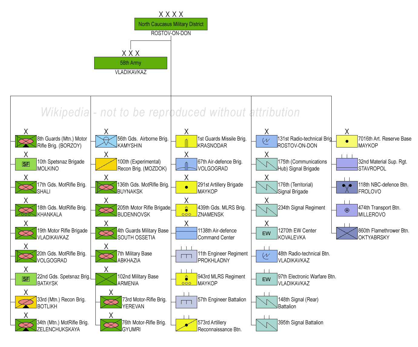 Russian Ground Forces North Caucasus Military District Structure 2010